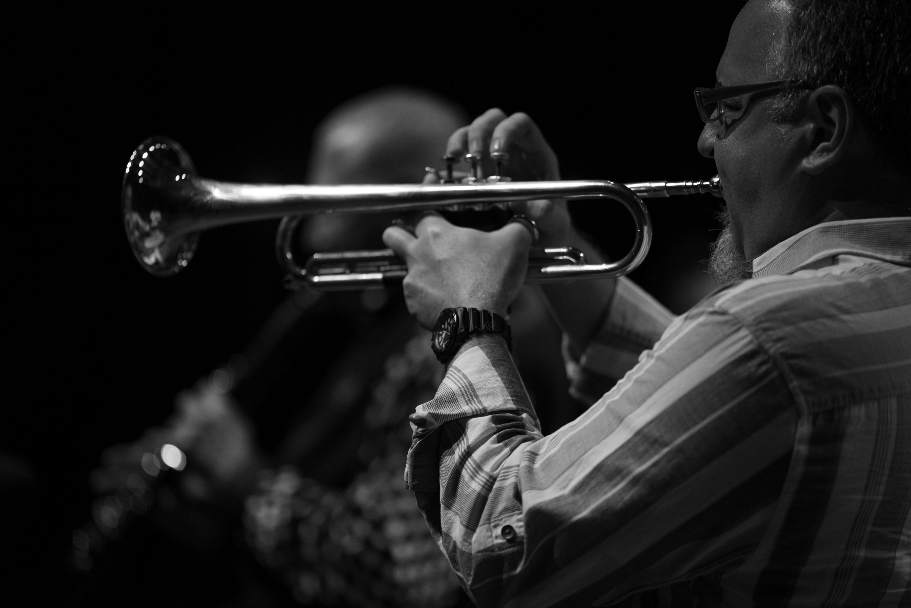 19º FESTIVAL INTERNACIONAL DE JAZZ DE PUNTA DEL ESTE Luis Perdomo Cuarteto Johnattan Blake / batería Hans Glawischnig /bajo Luis Perdomo / piano Mark Shim / saxo tenor – wind controller Martin Wind Cuarteto Homenaje a Bill Evans Bill Cunliffe /piano Joe La Barbera / batería Martin Wind / bajo Scott Robinson / saxotenor Paquito D'Rivera presenta: Homenaje a Chano Pozo Alex Brown /piano Eric Doob / batería Zachary Brown / bajo Pernell Saturnino /percusión Diego Urcola / trompeta Paquito D'Rivera / saxo alto FINCA EL SOSIEGO, Maldonado, Uruguay Camera: NIKON D810 Lens: Zeiss Apo Sonnar T* 2/135 ZF.2 0 ISO: 800